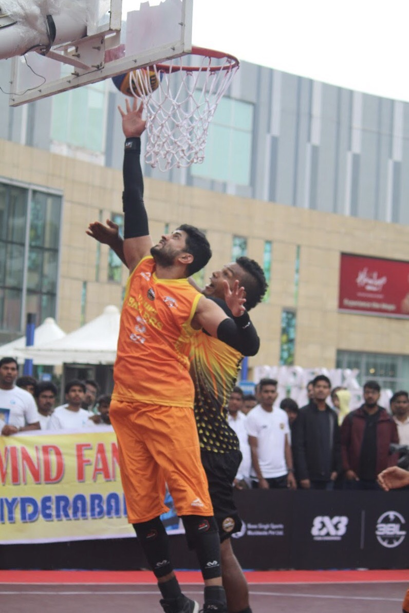 Arvind Krishna during a 3BL match